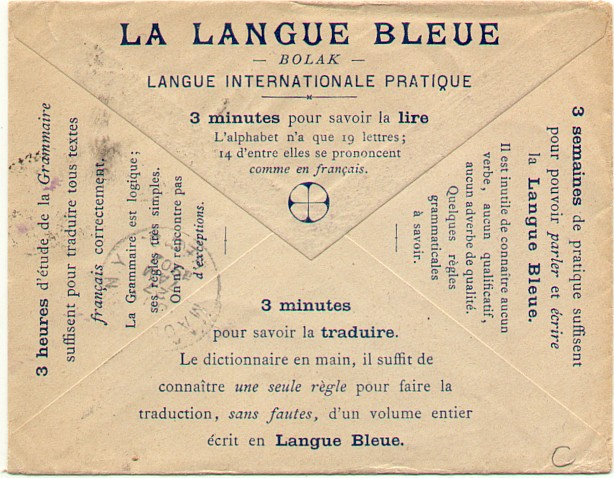 An envelope rear (from Editions Langue Bleue, Paris, 1902) explaining the artificial language Bolak, by Leon Bollack